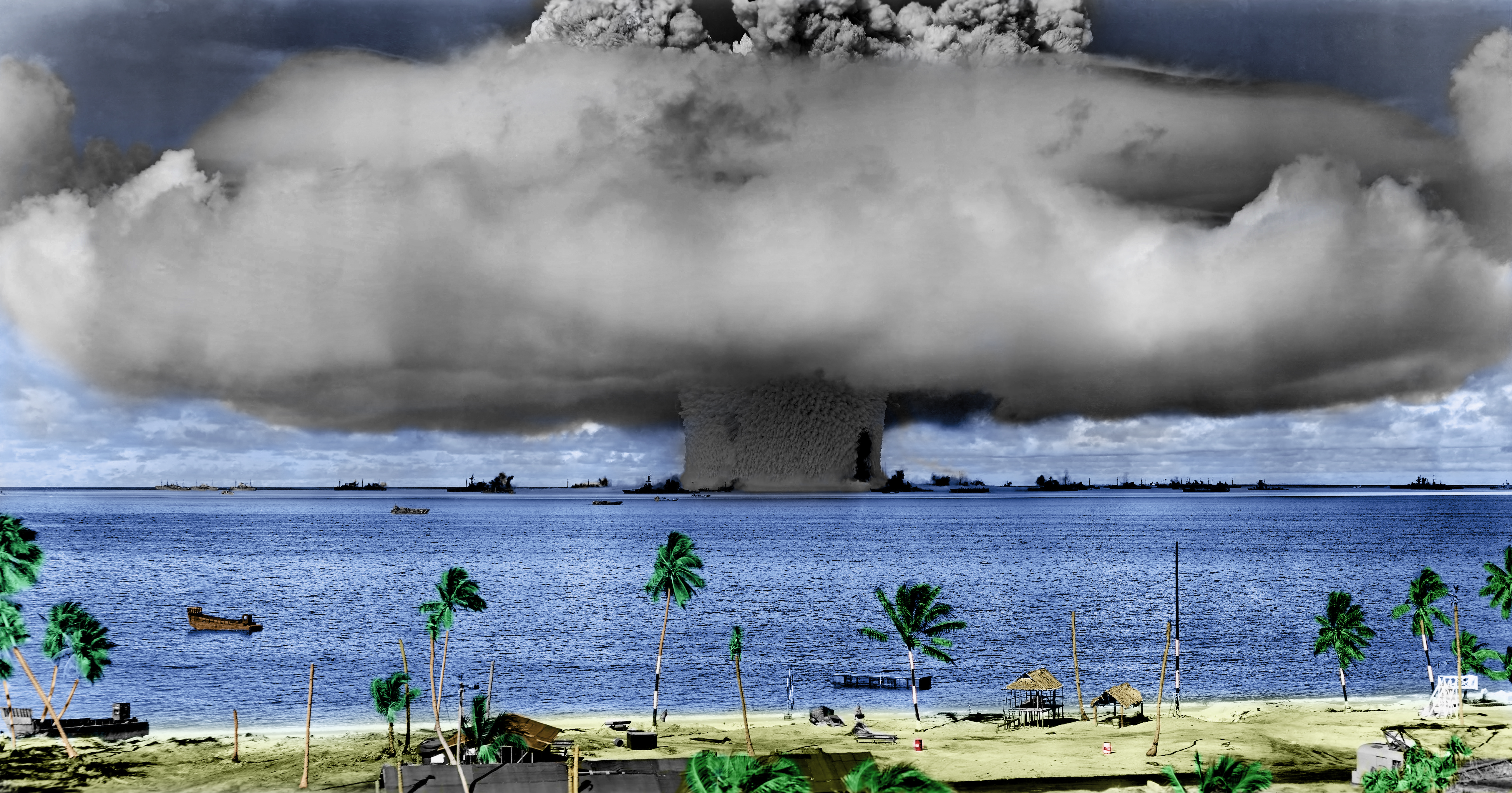 The "Baker" explosion, part of Operation Crossroads, a nuclear weapon test by the United States military at Bikini Atoll, Micronesia, on 25 July 1946. The wider, exterior cloud is actually just a condensation cloud caused by the Wilson chamber effect, and was very brief. The actual mushroom cloud is inside the condensation cloud (compare with this image, a photo taken slightly later, after the condensation cloud had cleared). The water released by the explosion was highly radioactive and contaminated many of the ships that were set up near it. Some were otherwise undamaged and sent to Hunter's Point in San Francisco, California, United States for decontamination. Those which could not be decontaminated were sunk a number of miles off the coast of San Francisco.